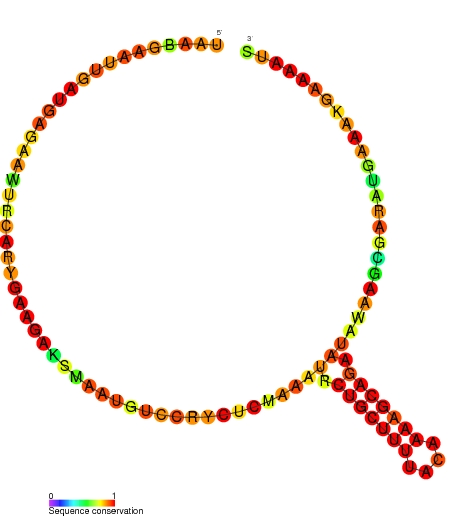 Secondary structure and sequence conservation image for MALAT1 non coding RNA (RF01871). Nucleotide colouring indicates sequence conservation between the members of this family.